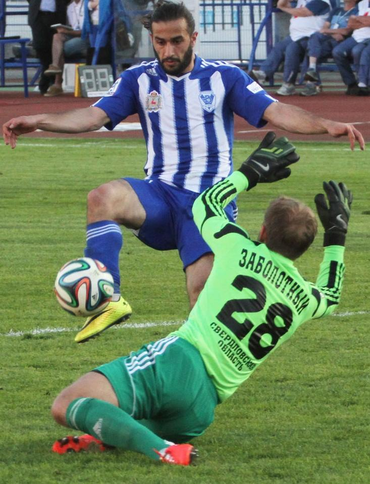 Artur Sarkisov playing for FC Volga Nizhny Novgorod.